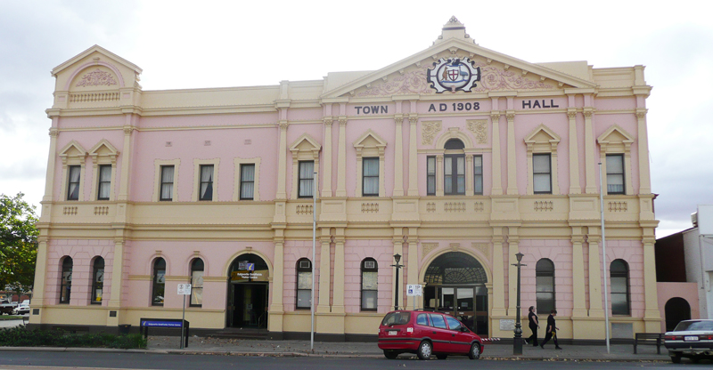 The Kalgoorlie Town Hall is located on the corner of Hannan and Wilson Streets, Kalgoorlie, and is one of the city’s major tourist landmarks. It is open to the public and available for hire. The Town Hall is an impressive 1908 Edwardian-styled building with intricate pressed metal ceilings, chandeliers, sweeping staircase, theatre and an extensive collection of art and memorabilia.